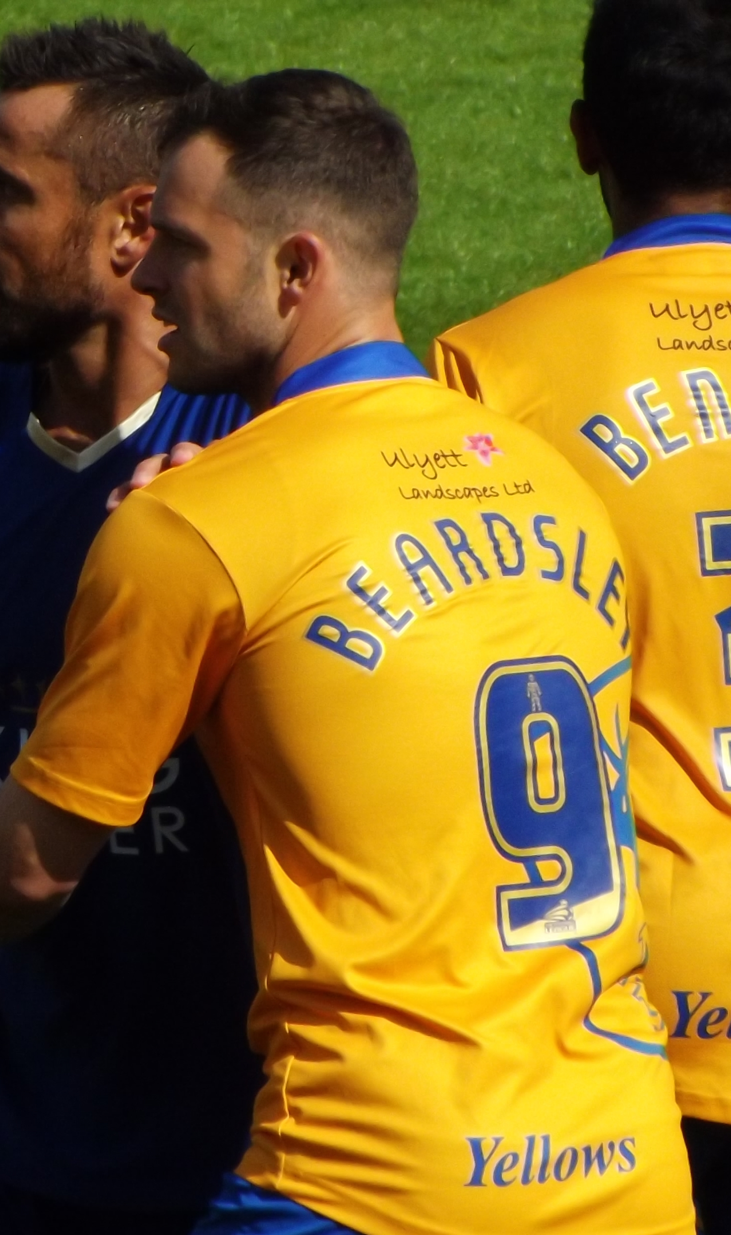 Chris Beardsley playing for Mansfield Town against Leicester City at Field Mill, Mansfield on 25 July 2015